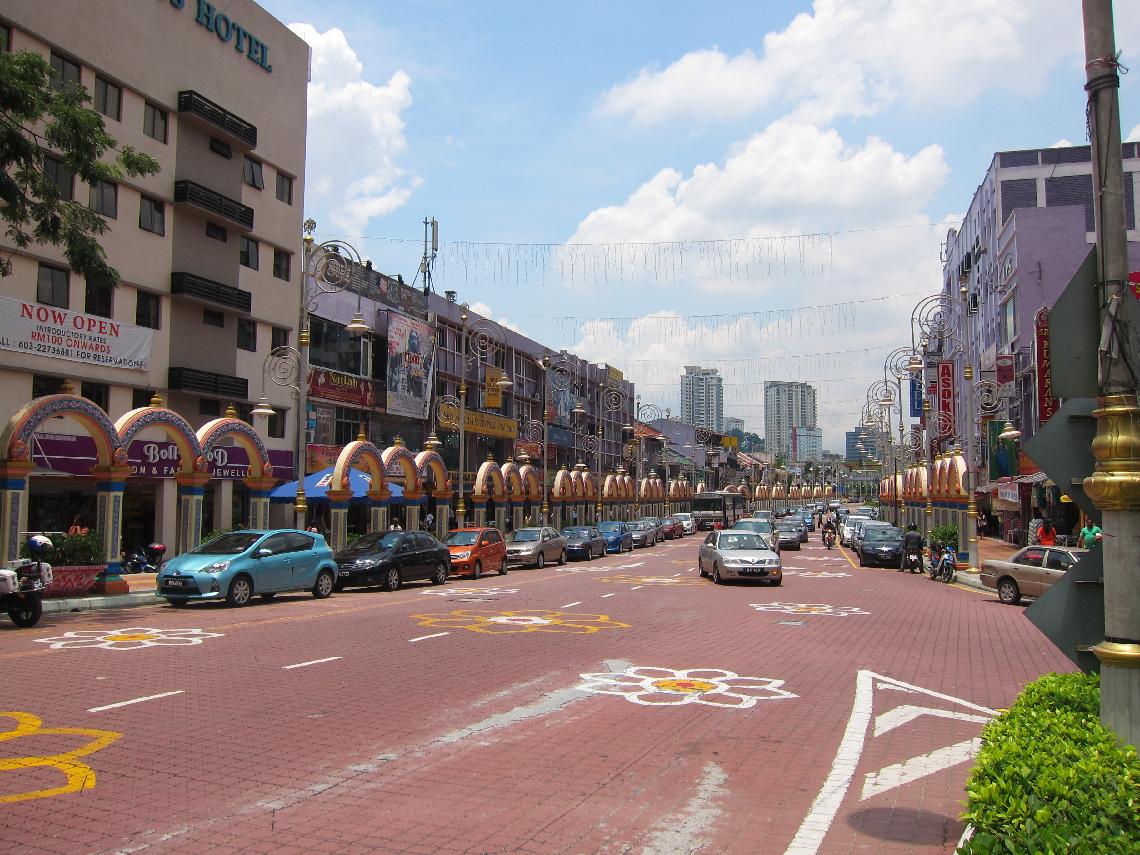 Jalan Tun Sambanthan